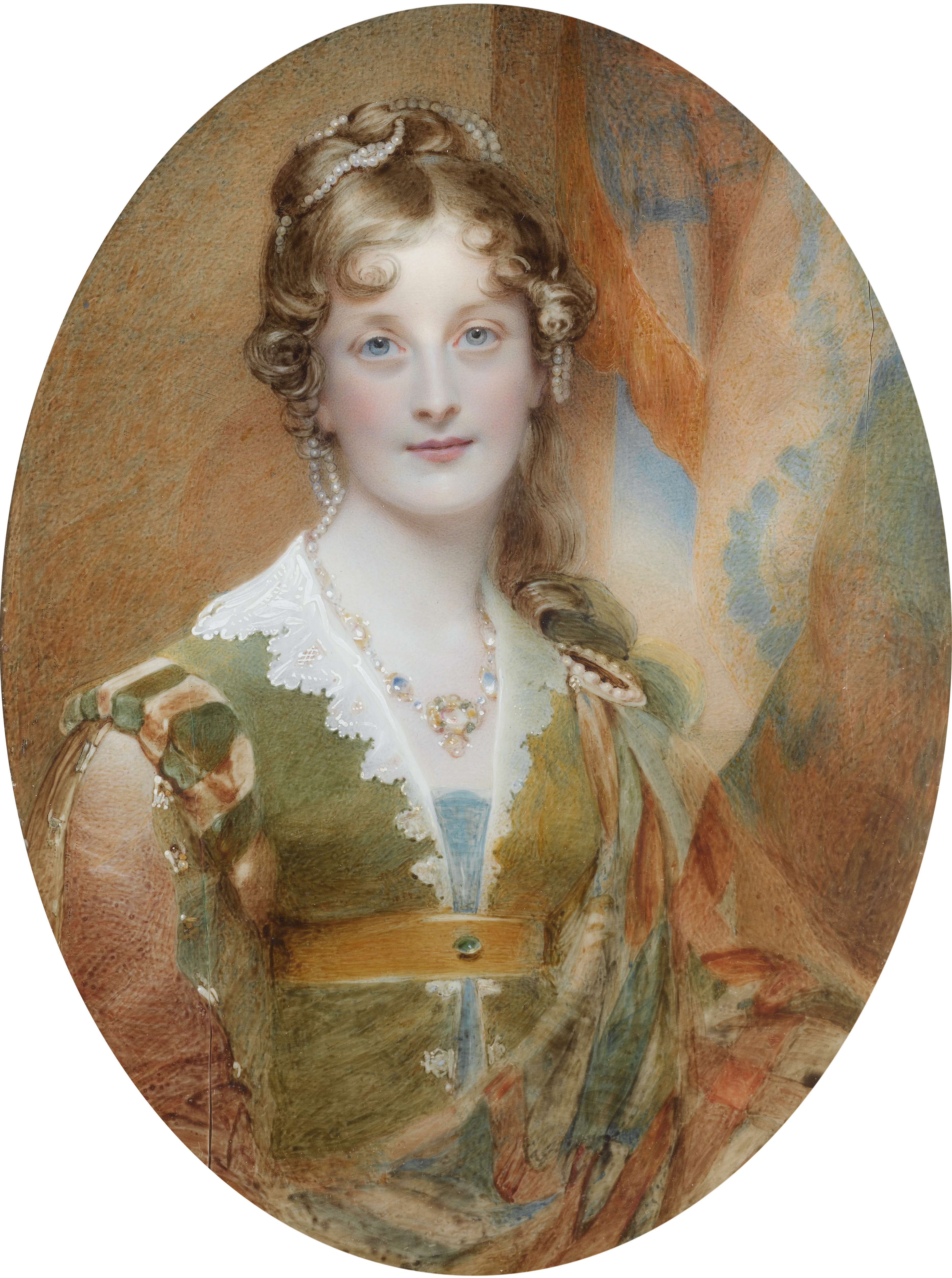 Jane Digby, Lady Ellenborough (1807-1881)